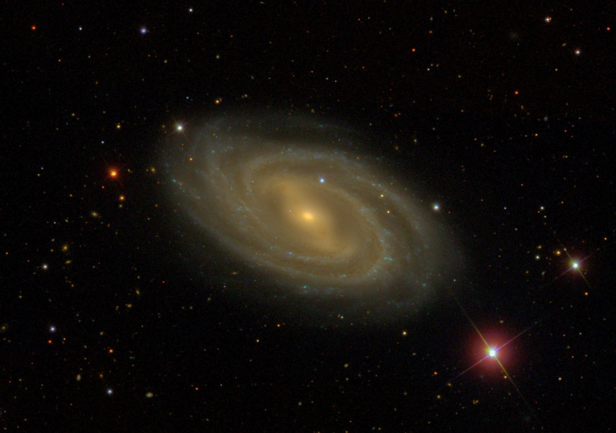 Angle of view: 13,5' x 9,5' (0.396" per pixel, SDSS native resolution), north is up.